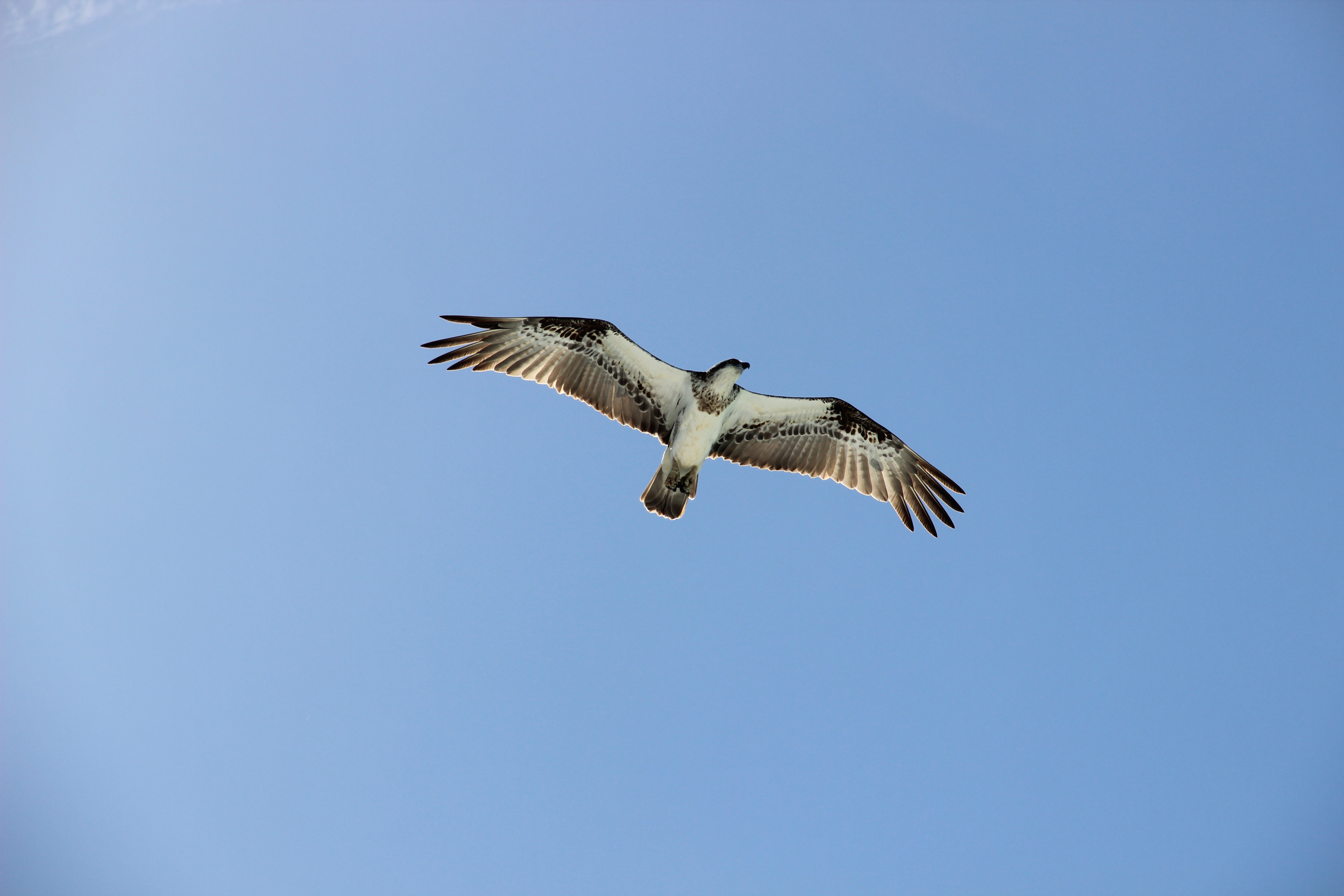 Eastern Osprey Pandion cristatus at Broome, Western Australia